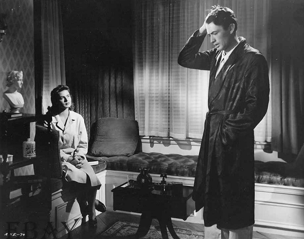 Ingrid Bergman and Gregory Peck in a scene from the 1945 film Spellbound.